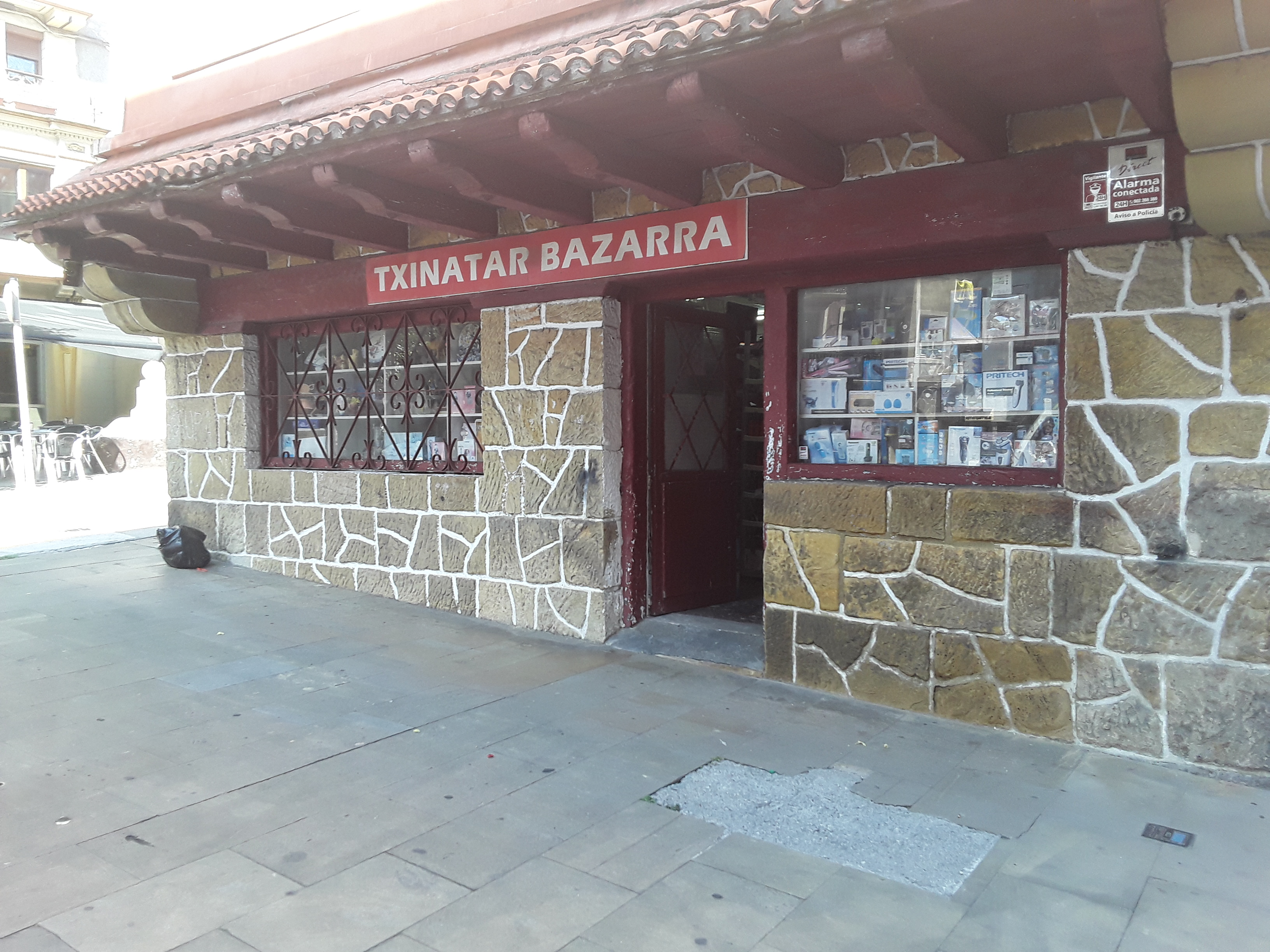 Variety store in Orio (Gipuzkoa)